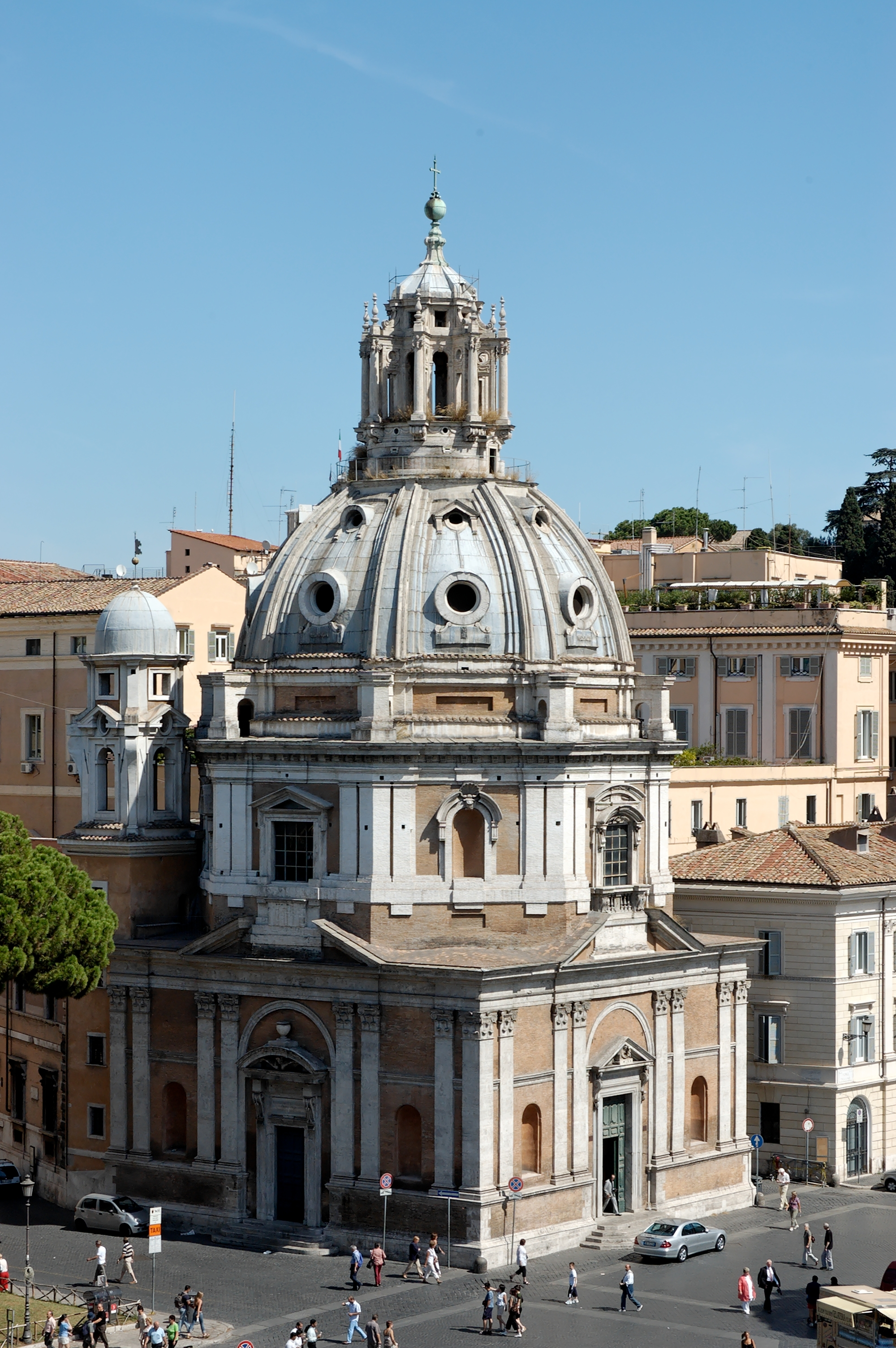 The church Santa Maria di Loreto in Rome, work of Sangallo the Younger (1507). View from the Vittoriano.